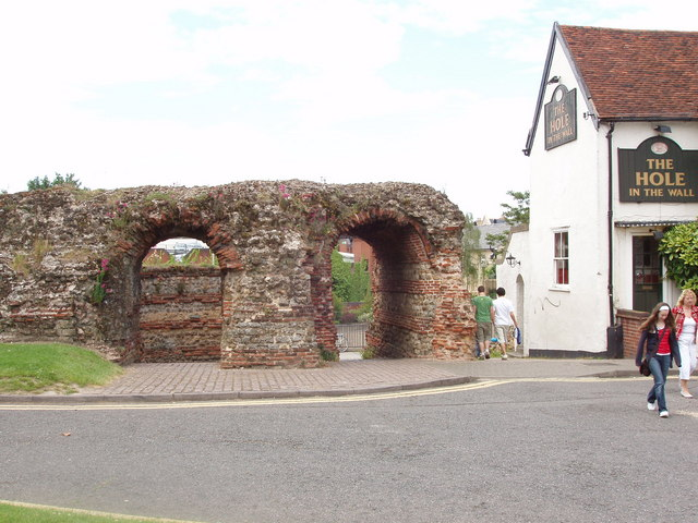 Balkerne Gate, Colchester. The largest Roman arch in Britain. Colchester and its wall were rebuilt by the Romans after Queen Boudica led a rebellion in AD 60 and detroyed the town.